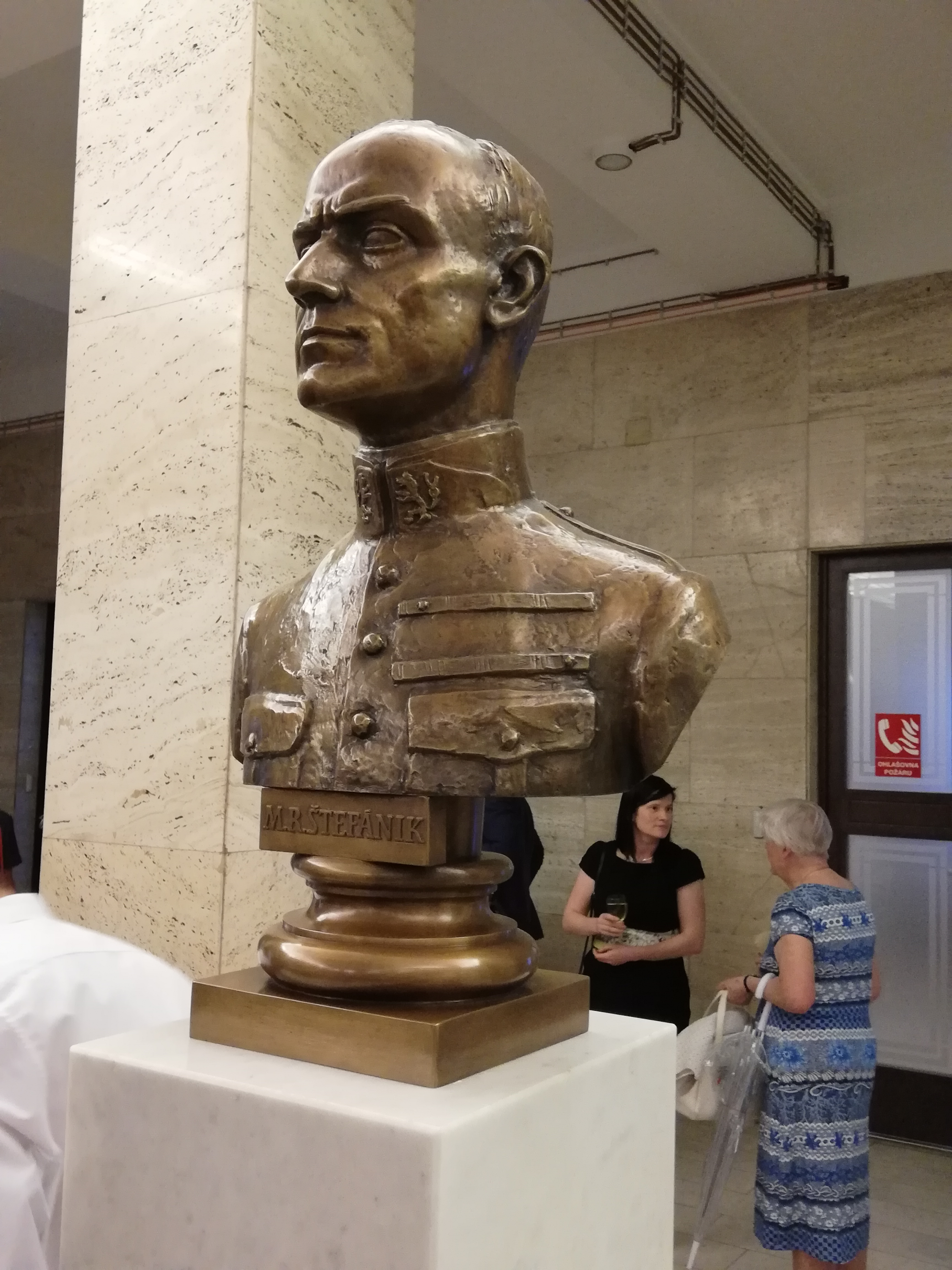 Bust of Milan Rastislav Štefánik (* 21. 7. 1880 Košariská - 4. 5. 1919 Ivanka pri Dunaji); location: new building of the National Museum at the address: Vinohradská 1, Prague 1; ground floor, public accessable entrance hall.